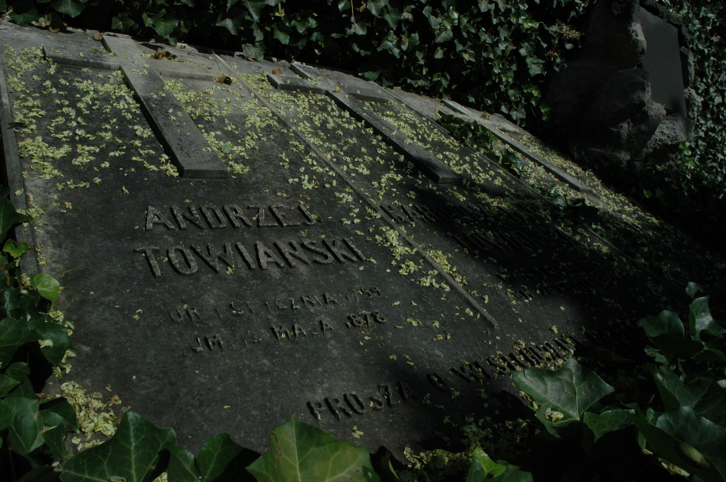 Grave of Andrzej Towiański and his wife Karolina Towiańska. Located in cemetery "Sihlfeld" in Zurich (Nr 83115). Description in Polish says: Andrzej Towiański born 1st January 1799, died 13th May 1878 Karolina maiden Max Towiańska born 12th August 1805, died 20th April 1878 Ask God for sigh